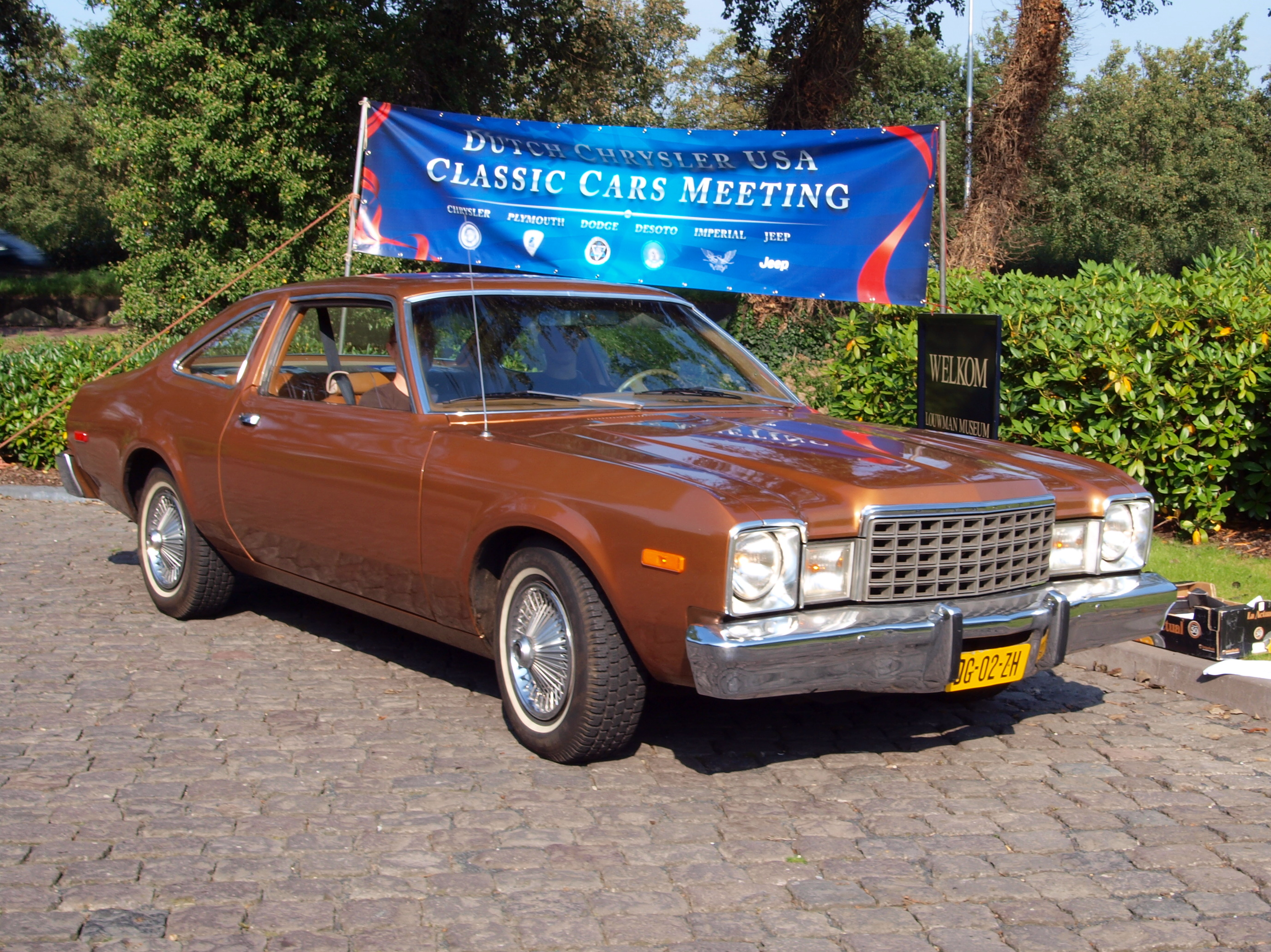 Photographed at the premmesis of the Louwman museum, The Hague, The Netherlands. OLYMPUS DIGITAL CAMERA